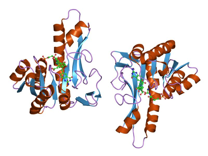 Cartoon representation of the molecular structure of protein registered with 1c2t code.